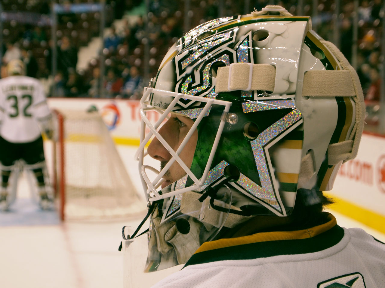 The Dallas Stars got shellacked during our trip to Vancouver, but Raycroft debuted his fancy new sparkly goaltender mask.